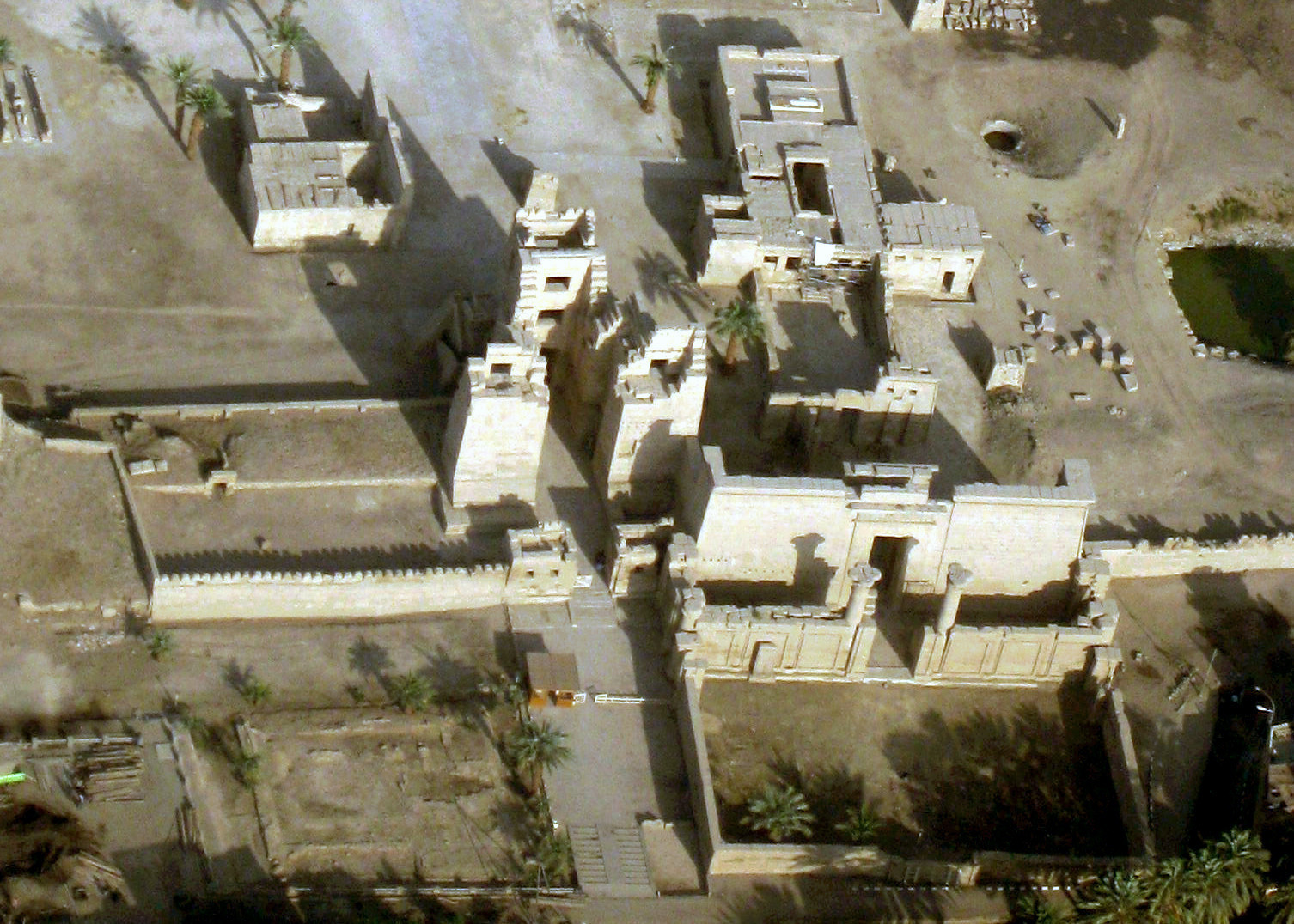 Migdol of Medinet Habu. Rameses III